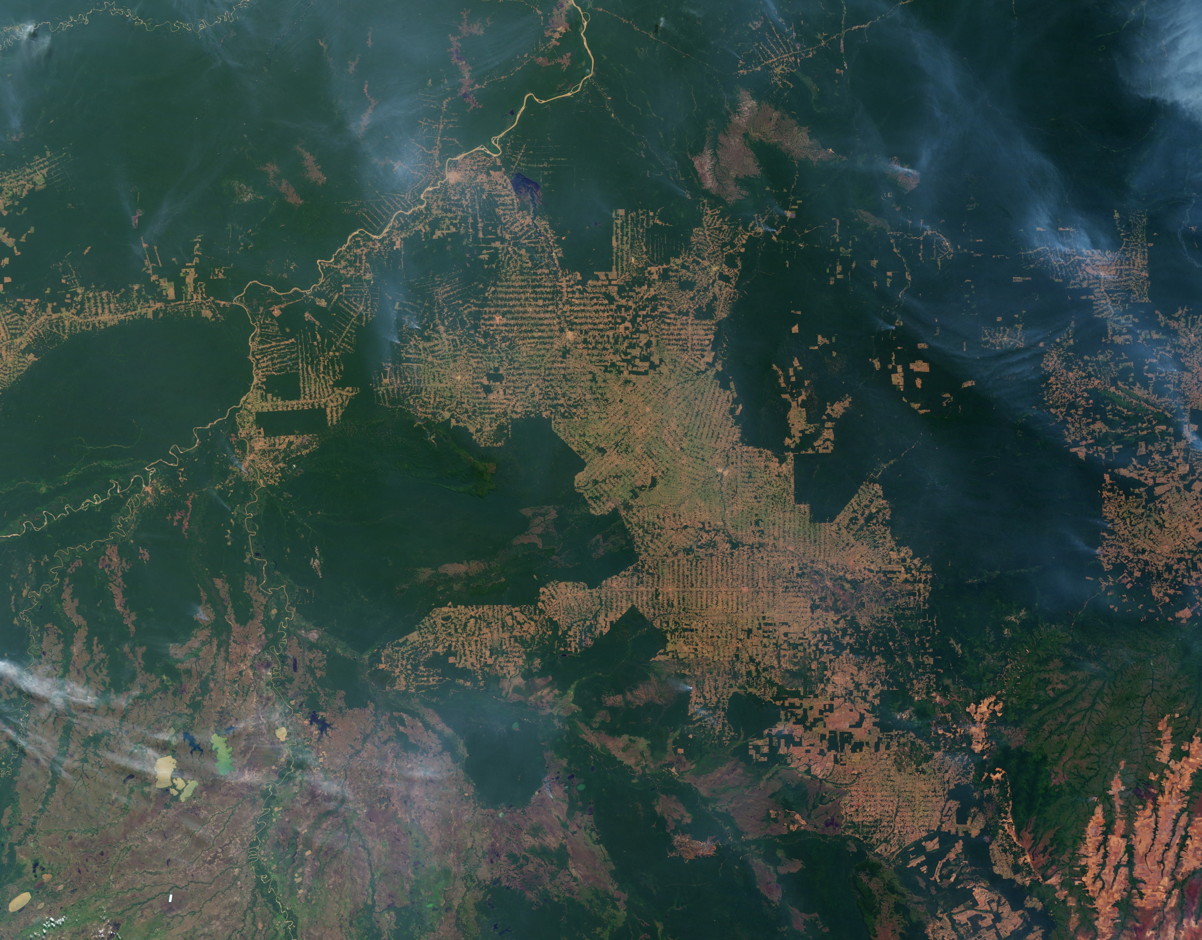 In this image, intact forest is deep green, while cleared areas are tan (bare ground) or light green (crops, pasture, or occasionally, second-growth forest). The fish bone pattern of small clearings along new roads is the beginning of one of the common deforestation trajectories in the Amazon.